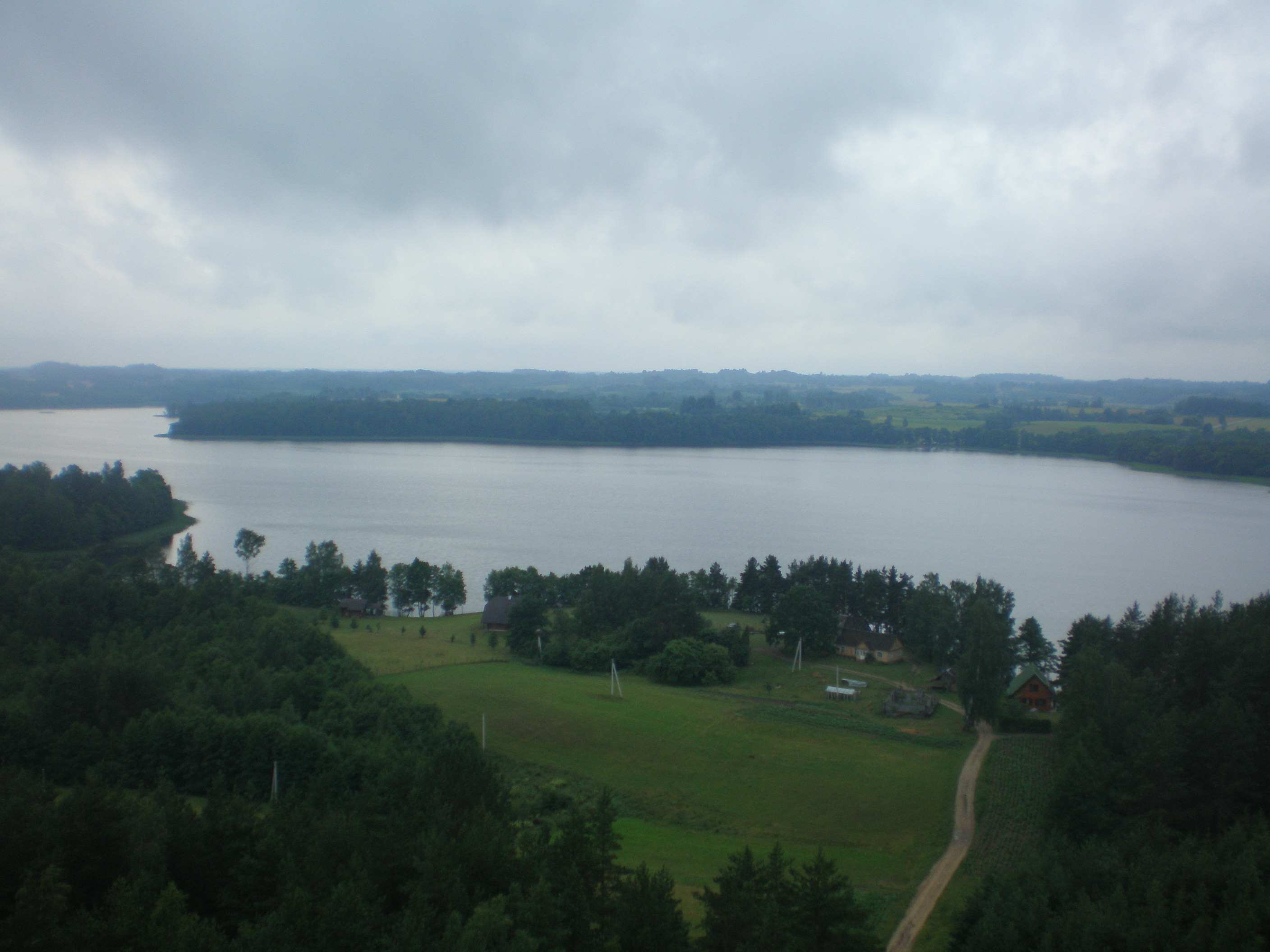 Ūkojas lake from view tower, Ignalina district